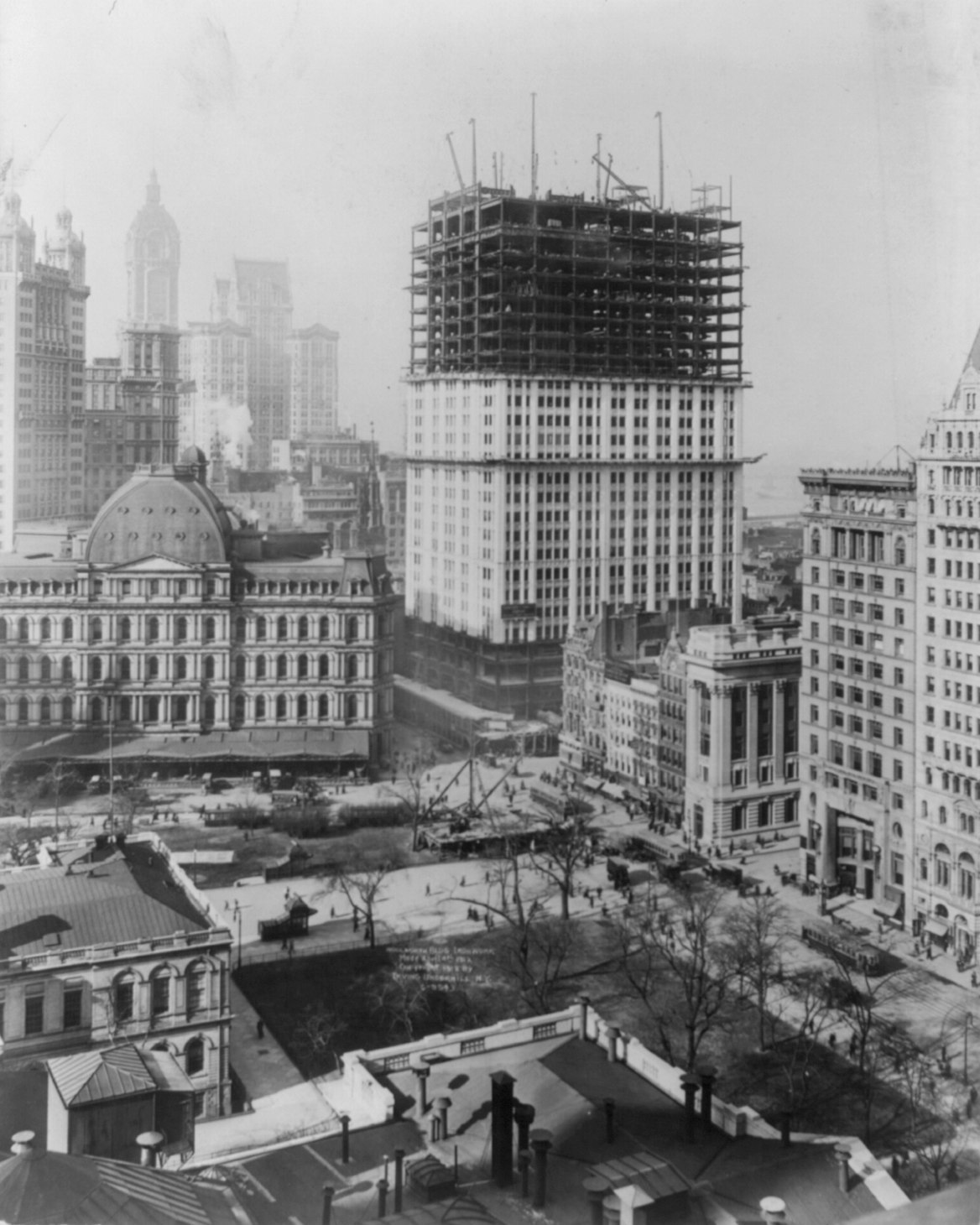 Title: Woolworth bldg. ironwork, made April 4th, 1912 Abstract/medium: 1 photographic print.